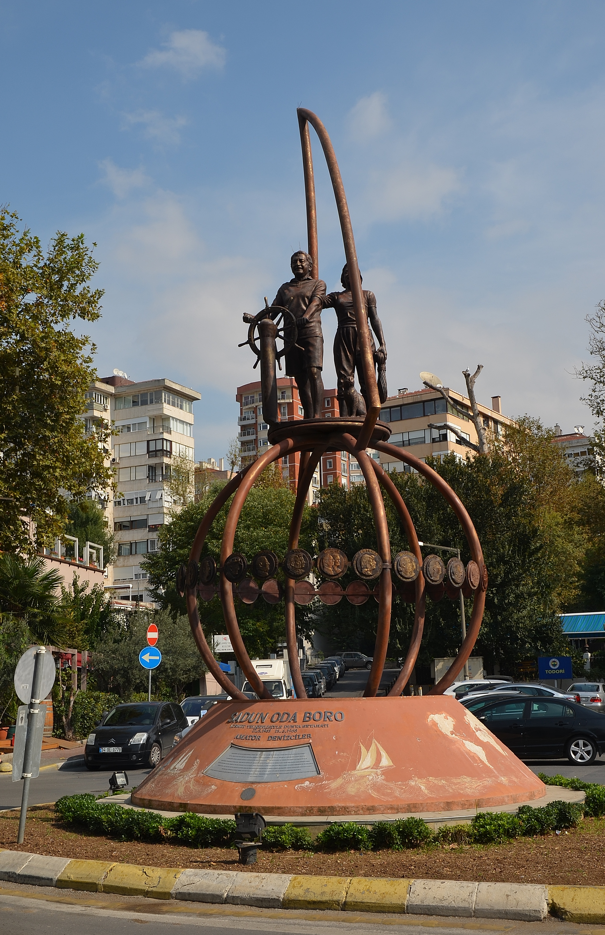 Monument to amateur world sailor Sadun and his wife Oda Boro in Kalamış, Kadıköy İstanbul